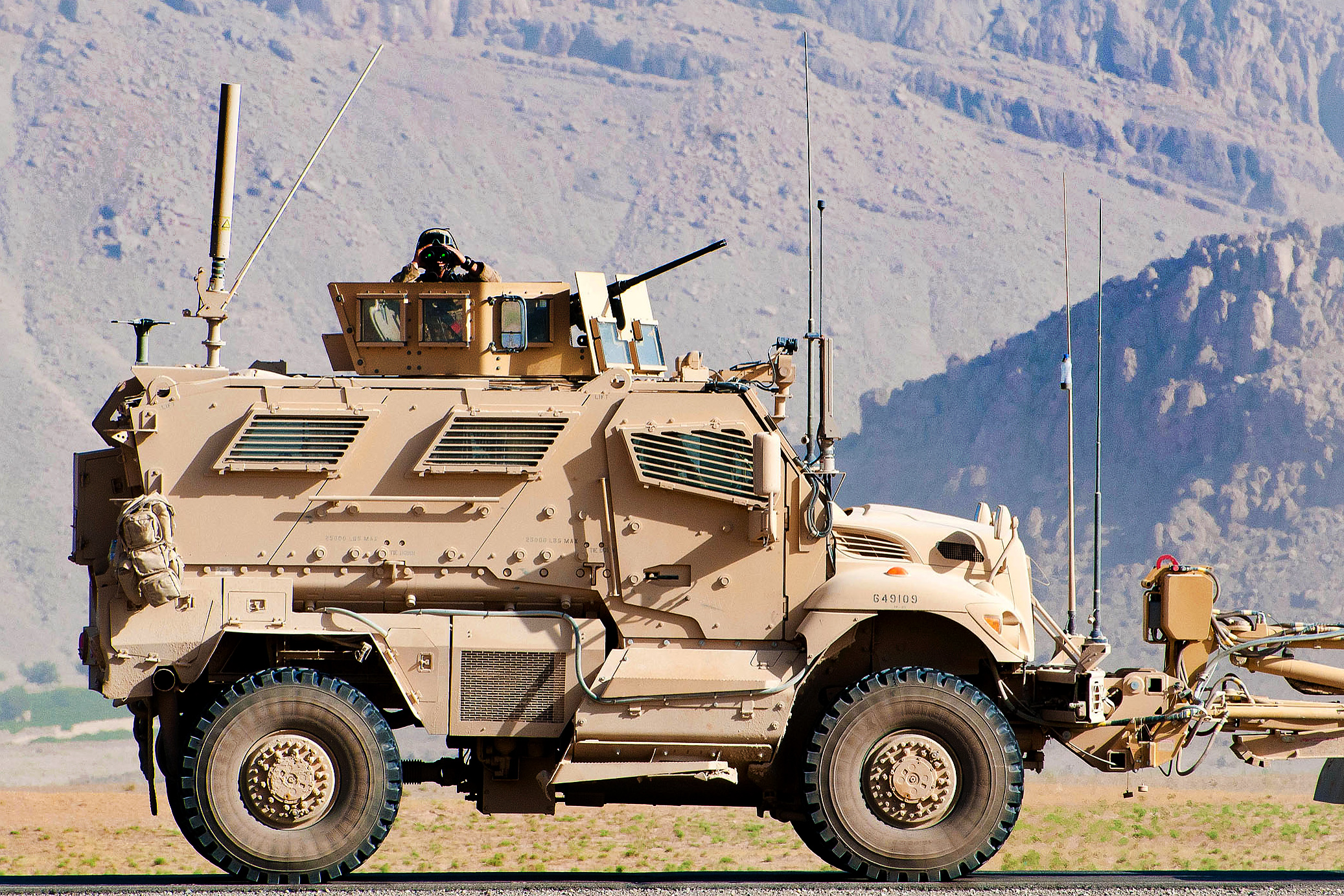 A U.S. Army paratrooper in a mine-resistant, ambush-protected vehicle uses binoculars to scan for insurgents during a route-clearance operation along Highway 1 in Afghanistan's Ghazni province, July 23, 2012.